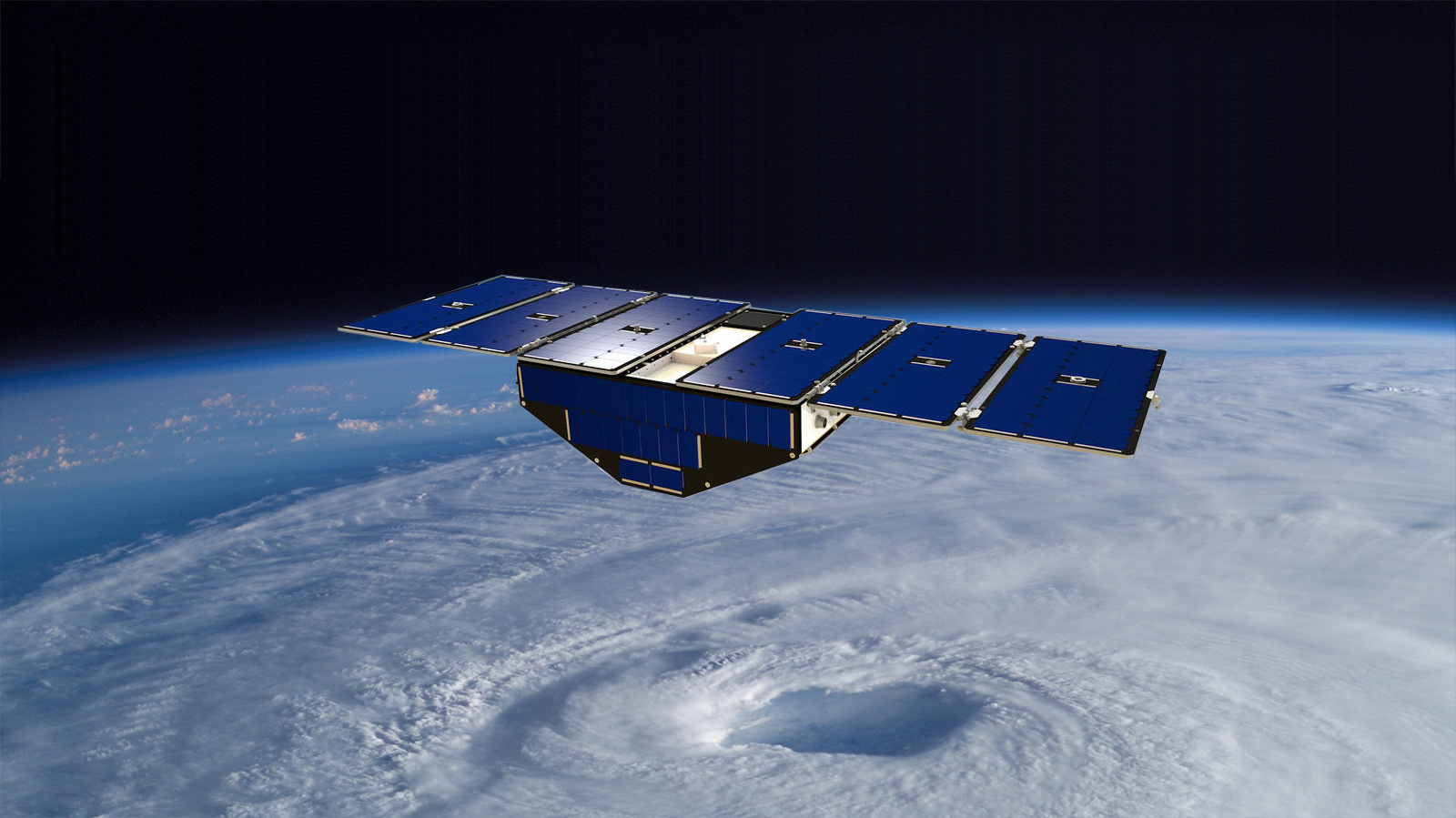 Artist's concept of one of the eight Cyclone Global Navigation Satellite System satellites deployed in space above a hurricane.